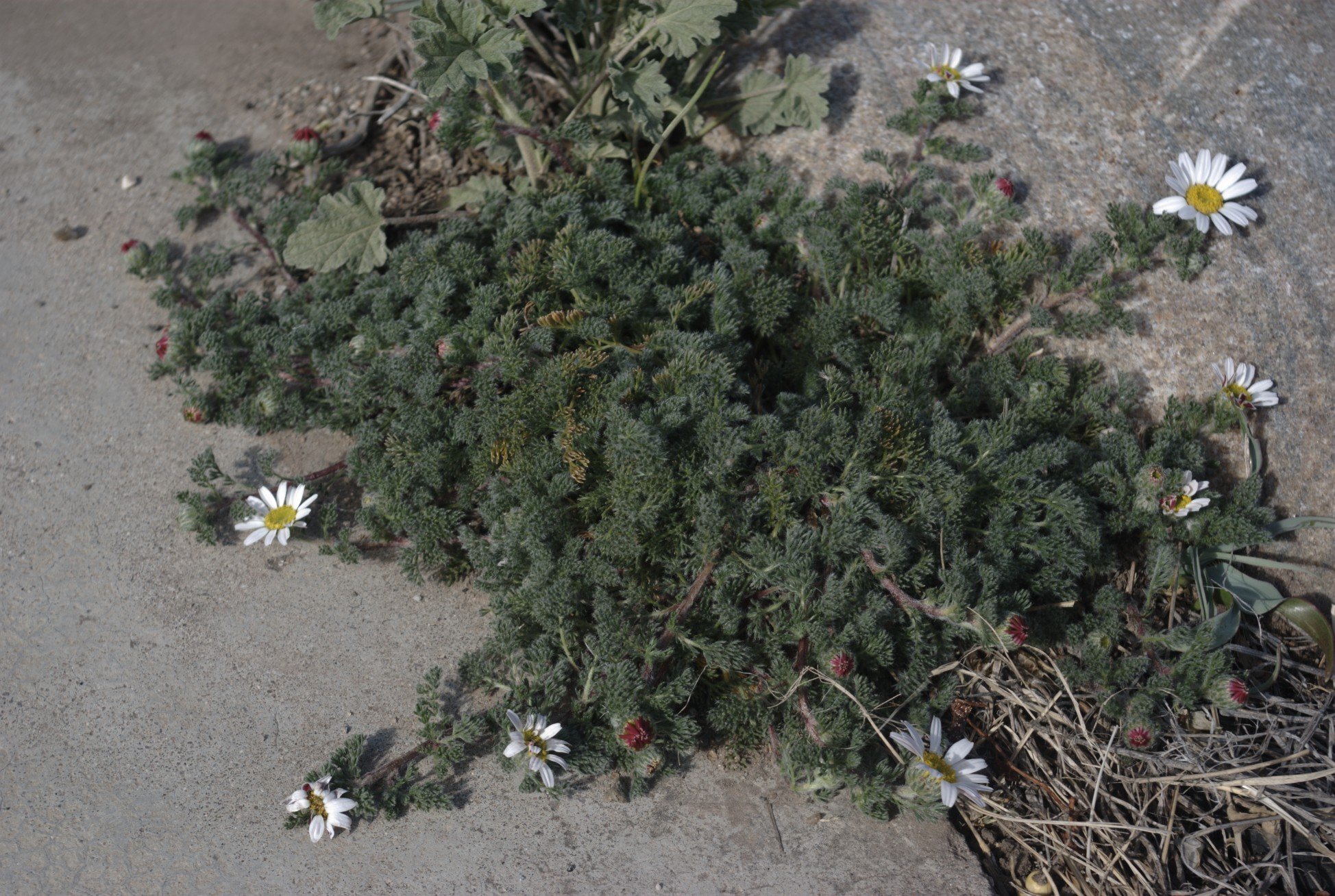 Habit of Anacyclus pyrethrum var. depressus or Anacyclus depressus, mat daisy or Mount Atlas daisy, in sun. My garden, Española, New Mexico. A sprouting Sphaeralcea angustifolia (I think) is behind it.